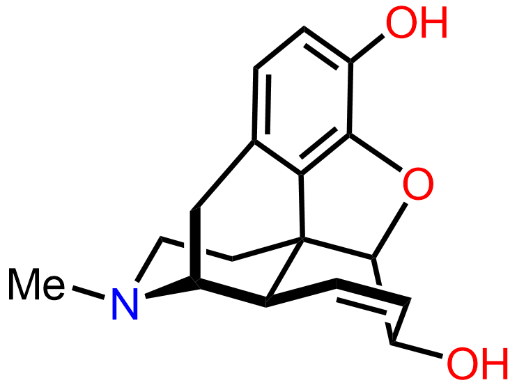 3-dimensional representation of the structure of morphine